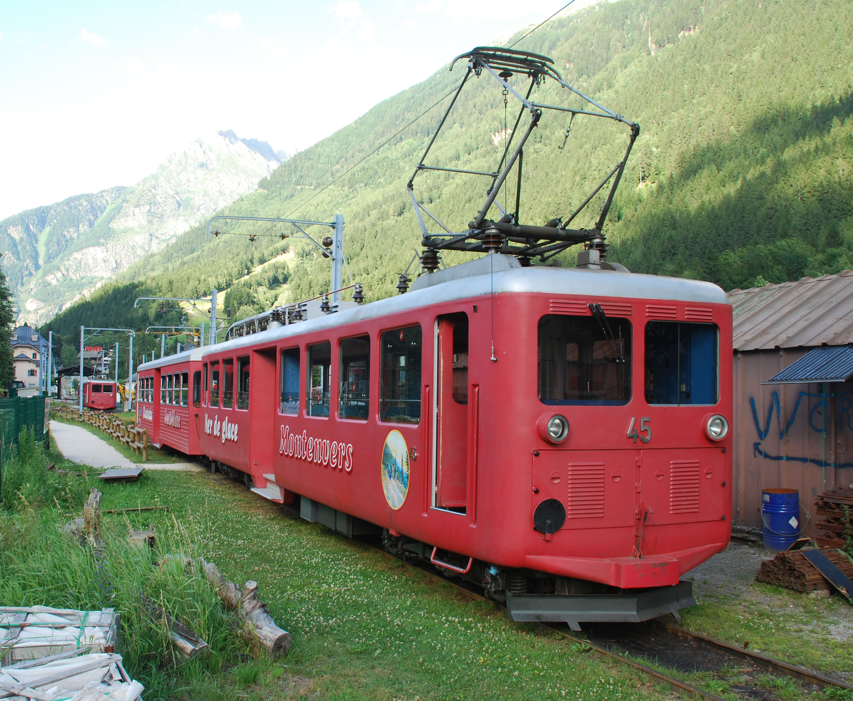 Montenvers railway: EBU #45.